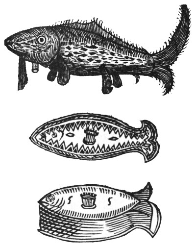 Engraving of fish pie from Robert May's The Accomplisht Cook, 1660